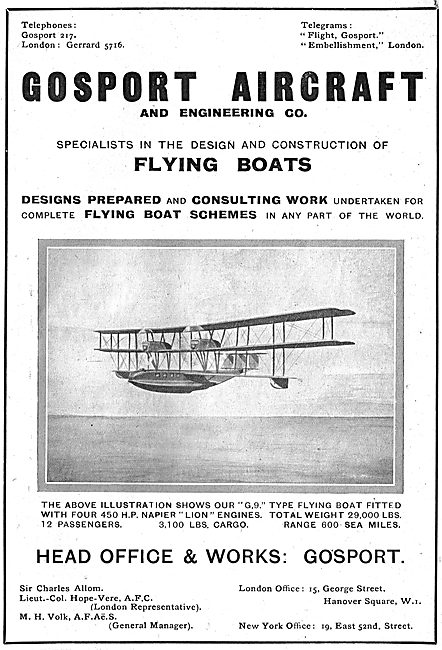 Scan of a Gosport Aircraft Company advertisement from the Aeroplane, Aeroplane 7th July 1920.